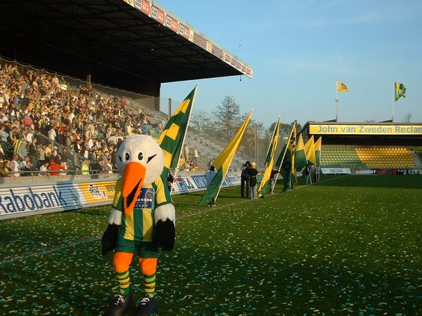 Zuiderpark